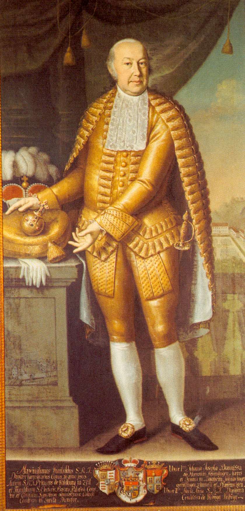 Portrait of Maximilian von Waldburg-Zeil (1750-1818)